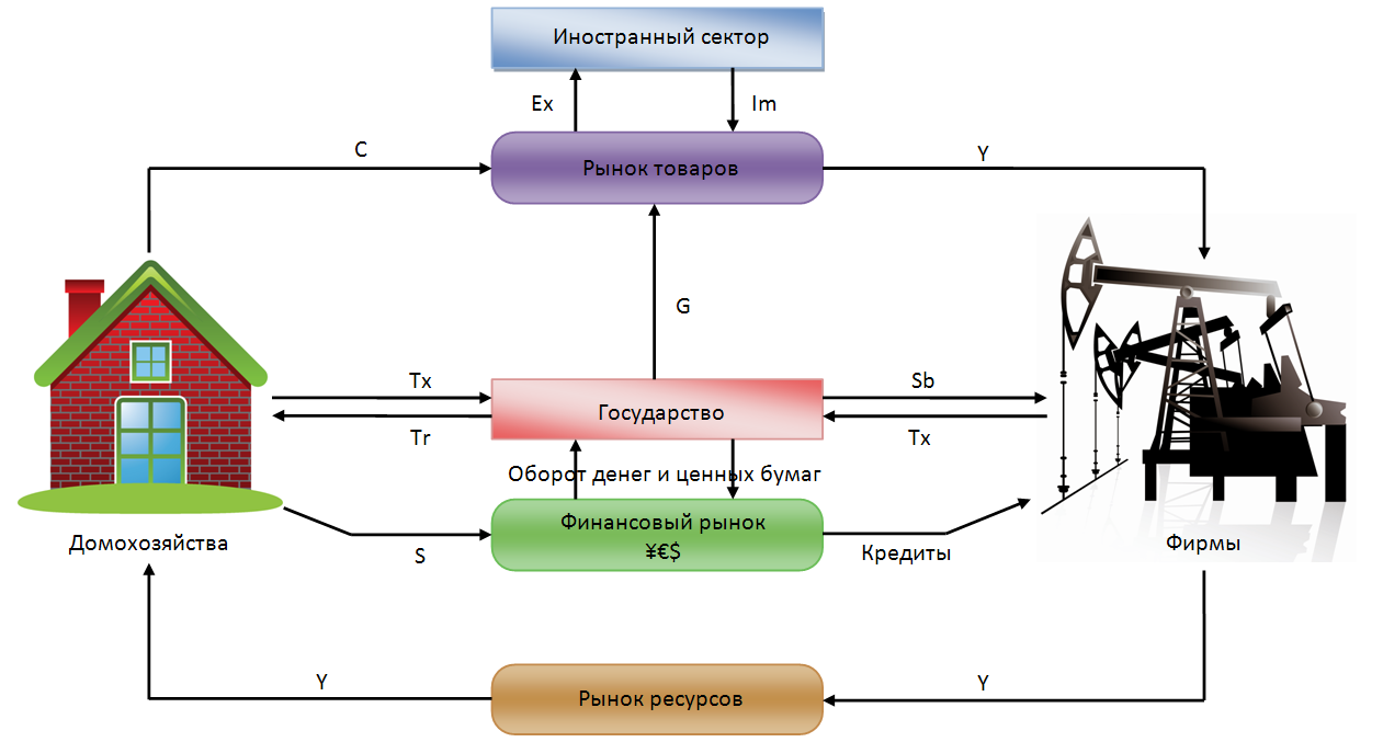 Model of macroeconomics